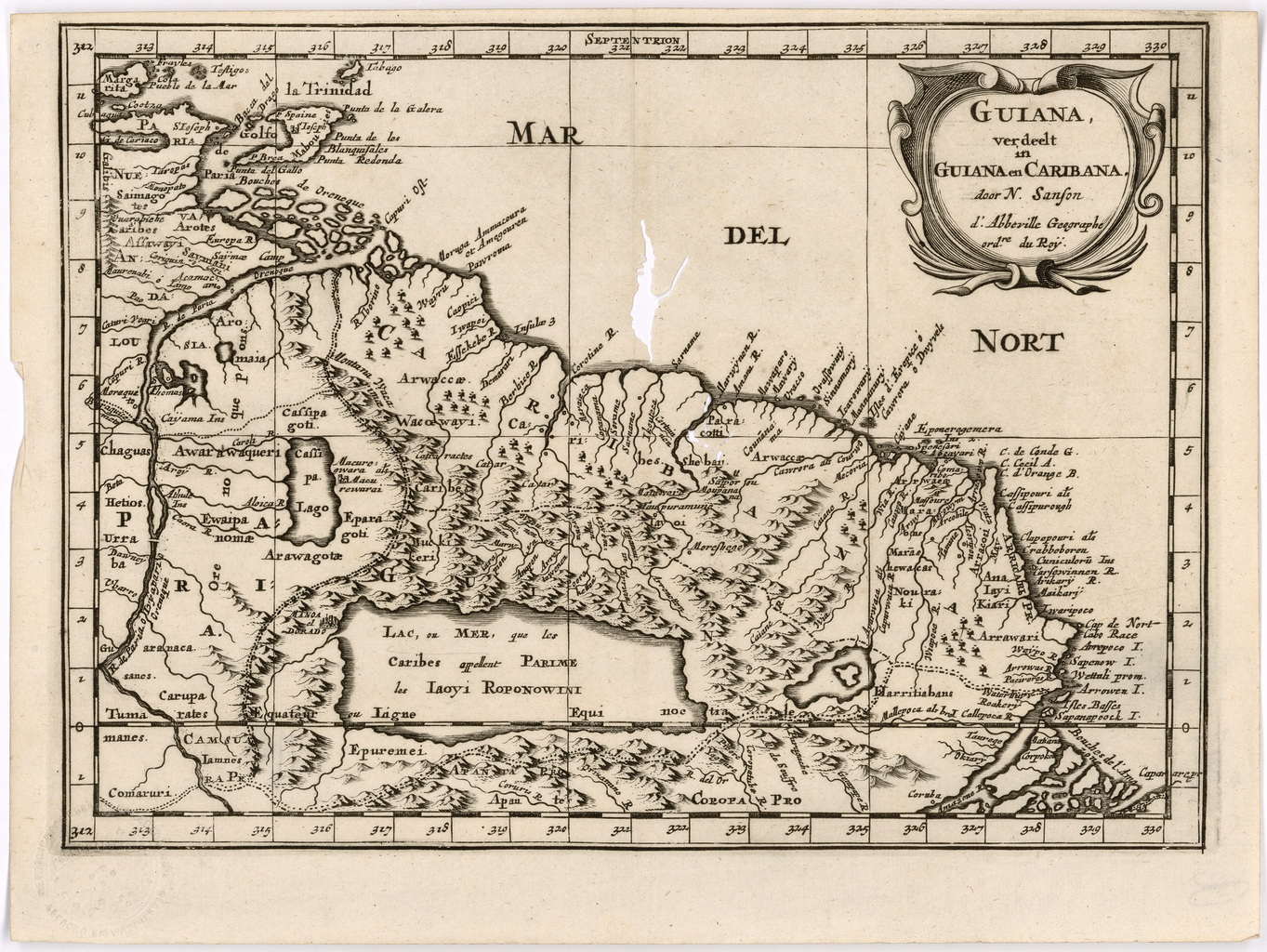 This map of part of the northern coast of South America is a Dutch version of a map originally produced around 1650 by Nicolas Sanson (1600–1667), royal geographer to Kings Louis XIII and XIV, and commonly known as the father of French cartography. Numerous editions copied from Sanson were printed in the early 18th century. The map covers the region from the island of Trinidad and the mouth of the Orinoco River in the west to the mouth of the Amazon River in the southeast. Sanson divides this area into New Andalusia, Guiana, and Caribana and gives the names of the indigenous peoples inhabiting the region. European interest in this region was spurred by the publication, in 1596, of Sir Walter Raleigh’s The Discovery of the Large, Rich and Beautiful Empire of Guiana. Raleigh had made an expedition in 1595 up the Orinoco River in search of the legendary kingdom of El Dorado. The kingdom was believed to be located on the shores of a large body of water, known as Lake Parime. This map shows the lake, and attributes its name to the Carib people. The nonexistence of the mythical lake was not definitively proven until the 19th century. Netherlands--Colonies; Spain--Colonies